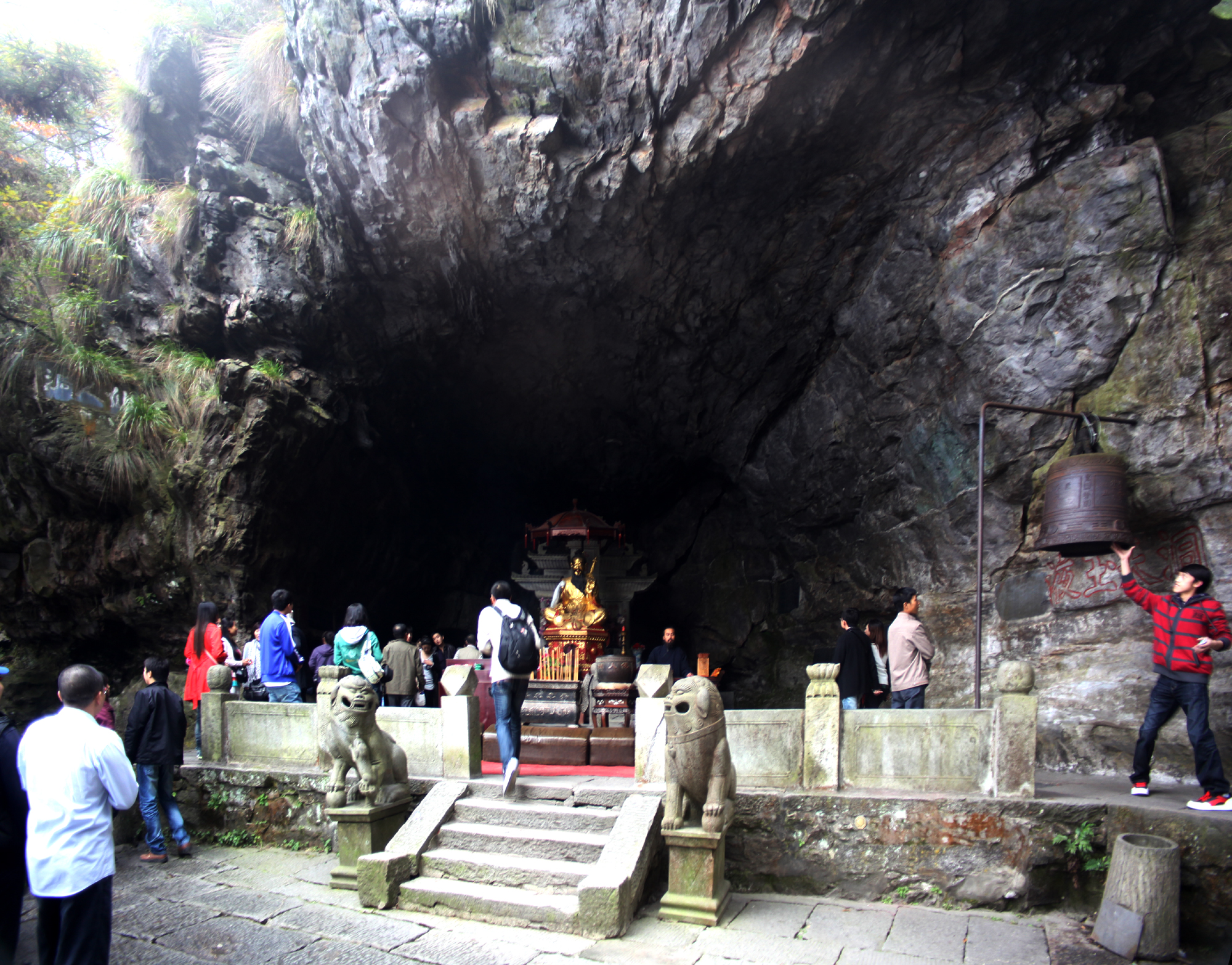 Celetial Cave on Lushan Mountain